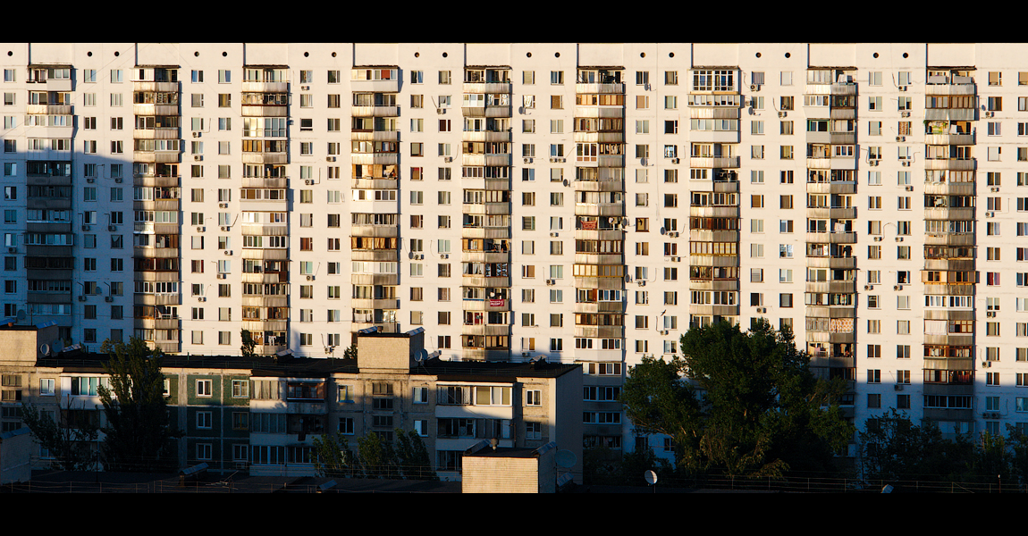 House where General Kriuchonkin lived in 14 Oleksiya Davydova Boulevard, Kyiv, Ukraine